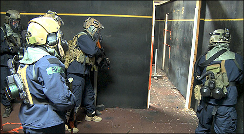 "Live-fire close-quarter battle exercises in the HRT’s “shooting house” mimic real-world missions."